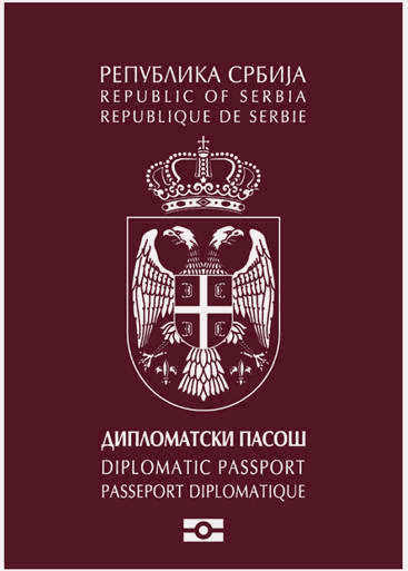 Front cover of a Serbian diplomatic passport.